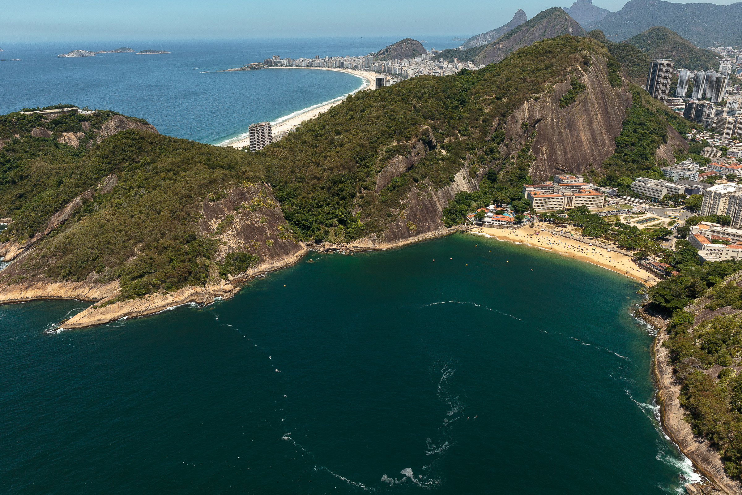 Vista aérea da Praia Vermelha localizada no Bairro da Urca na cidade do Rio de Janeiro